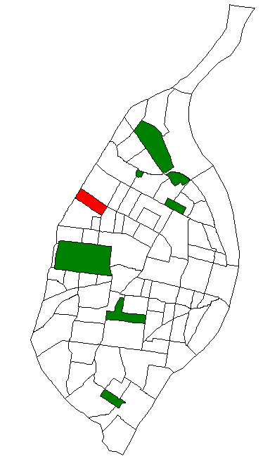 Map of St. Louis Neighborhood #78 (Hamilton Heights)